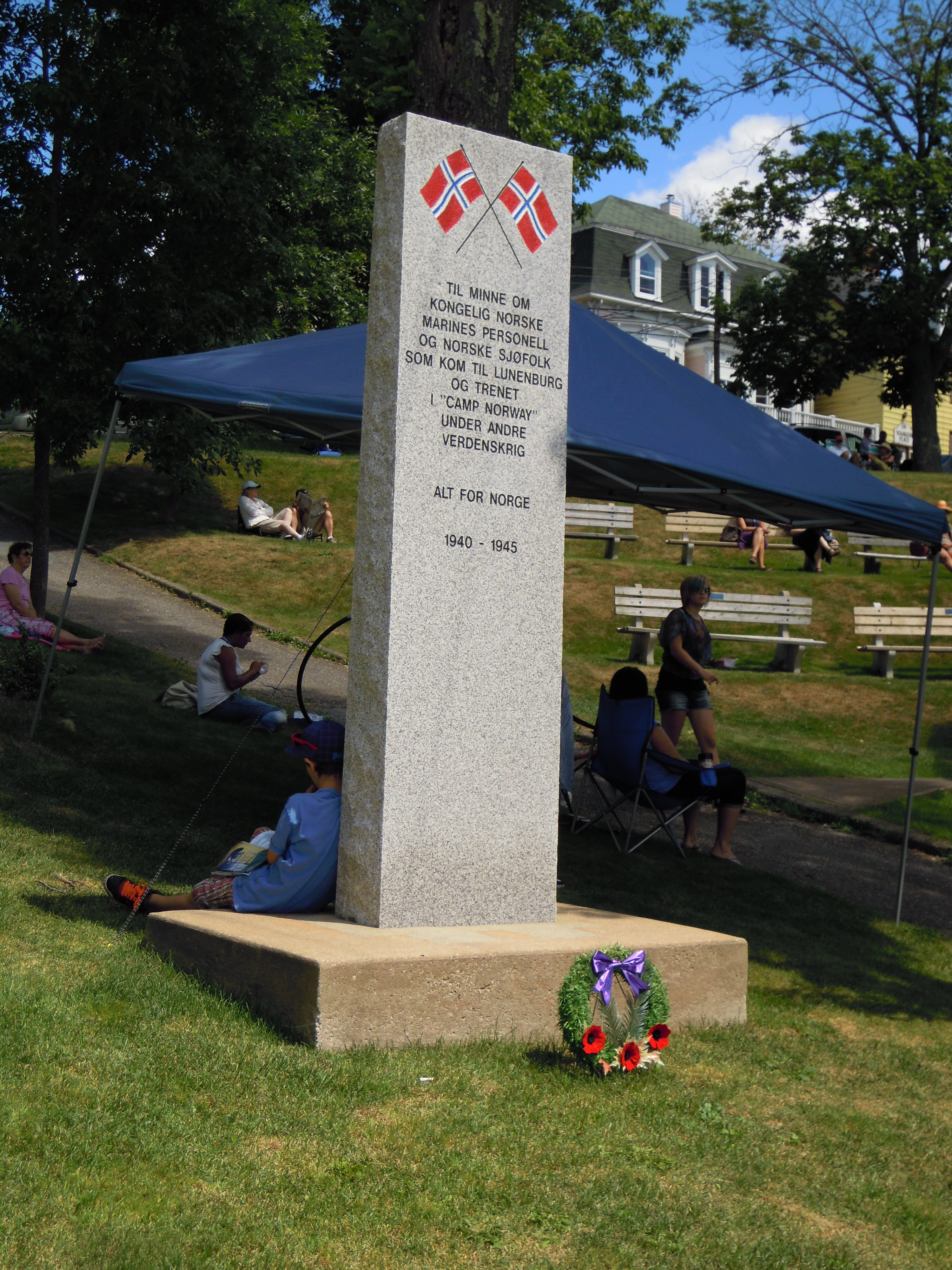 Memorial to Norwegian troops who trained in Nova Scotia during World War II. Lunenburg, Nova Scotia, Canada.